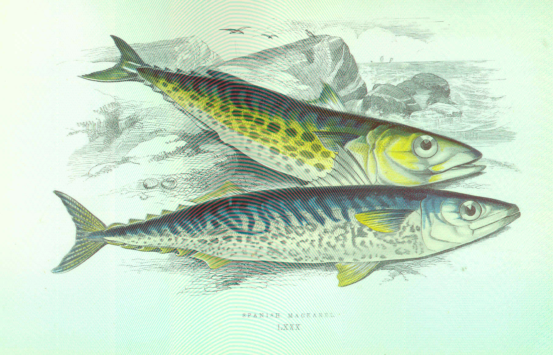 Spahisn Mackerel Scomber colias Scomber maculatus Subject: Chub mackerel, Spanish mackerel Tag: Fish